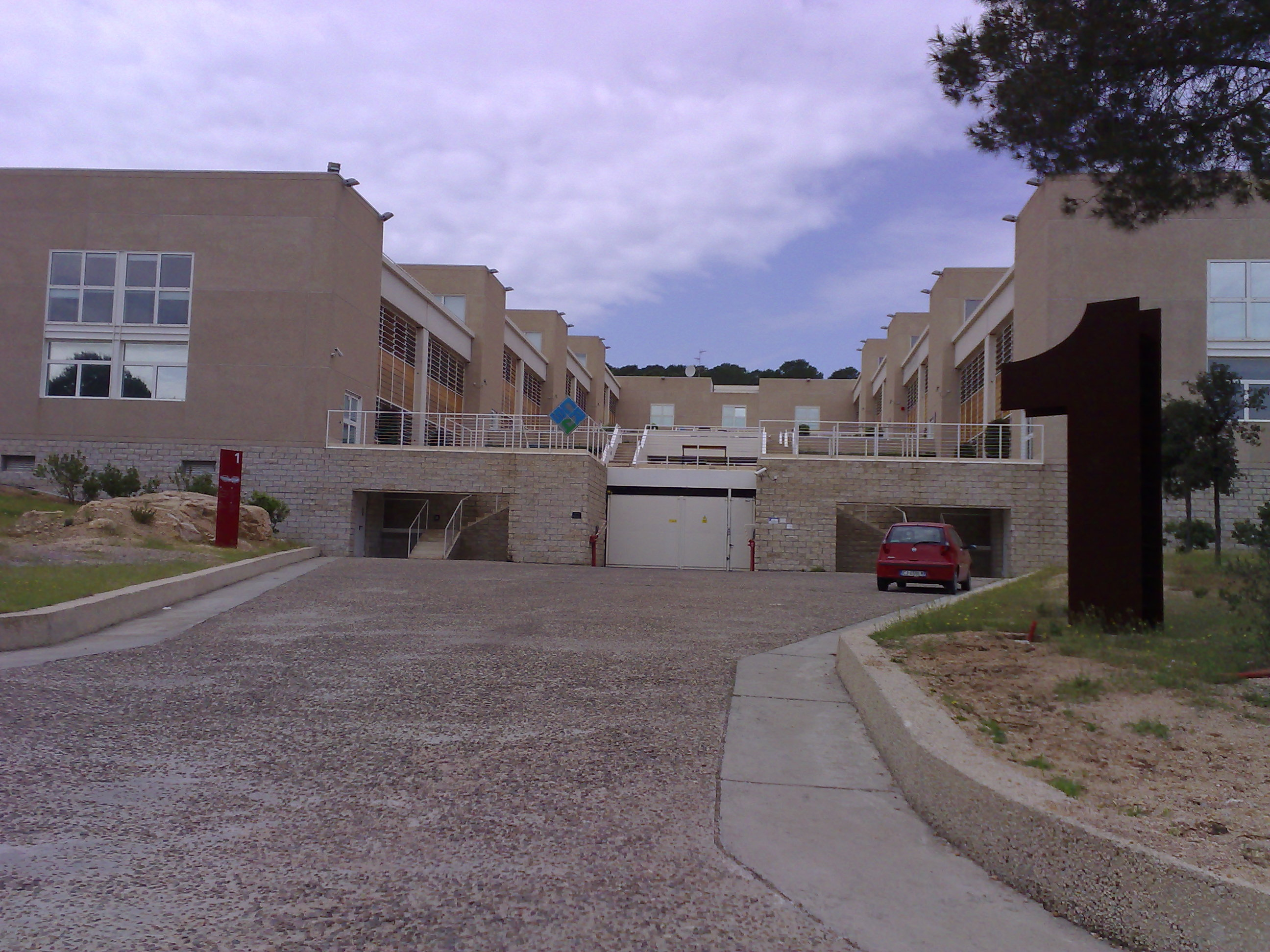 CRS4, also known as Center for Advanced Studies, Research and Development in Sardinia (Italian: Centro di Ricerca, Sviluppo e Studi Superiori in Sardegna), is an interdisciplinary research center, founded by the Sardinia Autonomous Region on November 30, 1990. Since 2003, the center is located in the Technology Park of Sardinia, in the commune of Pula. Several companies and research groups have chosen to establish their activities on this campus, giving rise to a thriving R&D community. CRS4 is a private research center, but its shareholder is a regional agency: Sardegna Ricerche. The center, initially headed by the Nobel Prize in Physics Carlo Rubbia, made the first Italian Website ( in September 1993, and collaborated to the creation of the first European web newspaper in 1994 (L'Unione Sarda) and to one of the first and largest internet providers (Video On Line). In this sense CRS4 has been crucial for the development of the Internet and Web in Sardinia.[1][2] Since 2010, about 200 researchers are working at CRS4 and the 4 main strategic research sectors are: Biomedicine Data Fusion Energy and Environment Information Society CRS4 is one of the major Italian Computing Centers and is equipped with the first Genotyping and massive DNA Sequencing Platform in Italy and with a state-of-the-art Visual Computing laboratory.